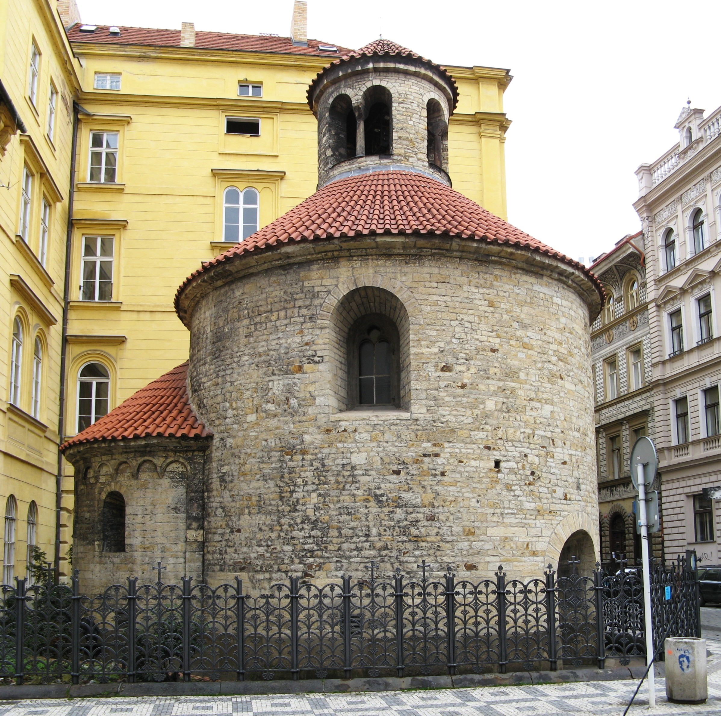 Rotunda - church of st. Cross in Prague (~1100)